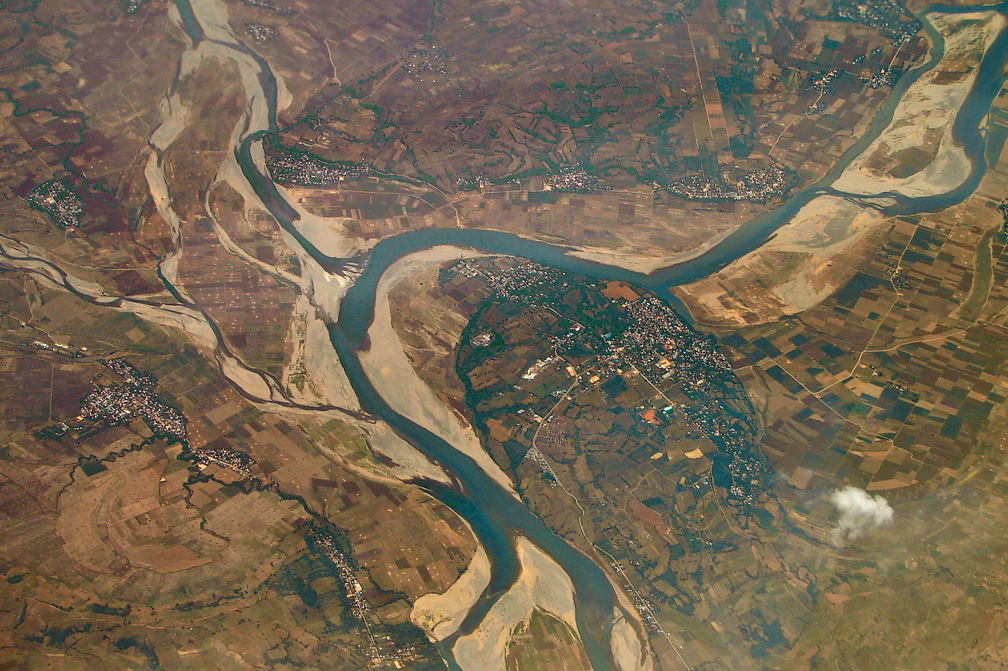 Aerial view of barangay Cabeseria 27, Ilagan City, Isabela Province, Philippines